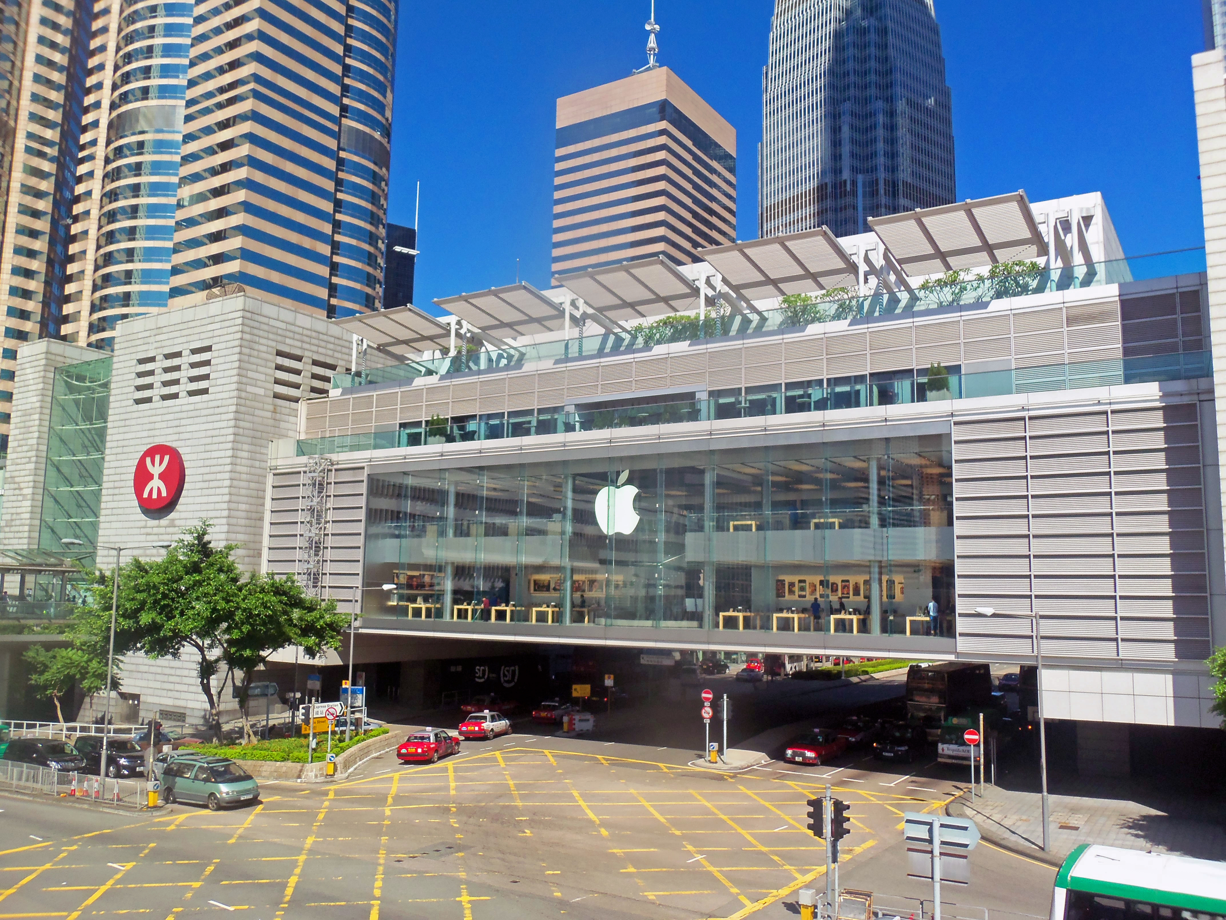 Apple Store at ifc mall, Hong Kong, seen from the walkway from the ferry docks